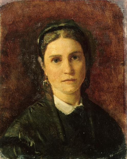 Portrait de Léonie d'Aunet, Biard's wife until 1845.